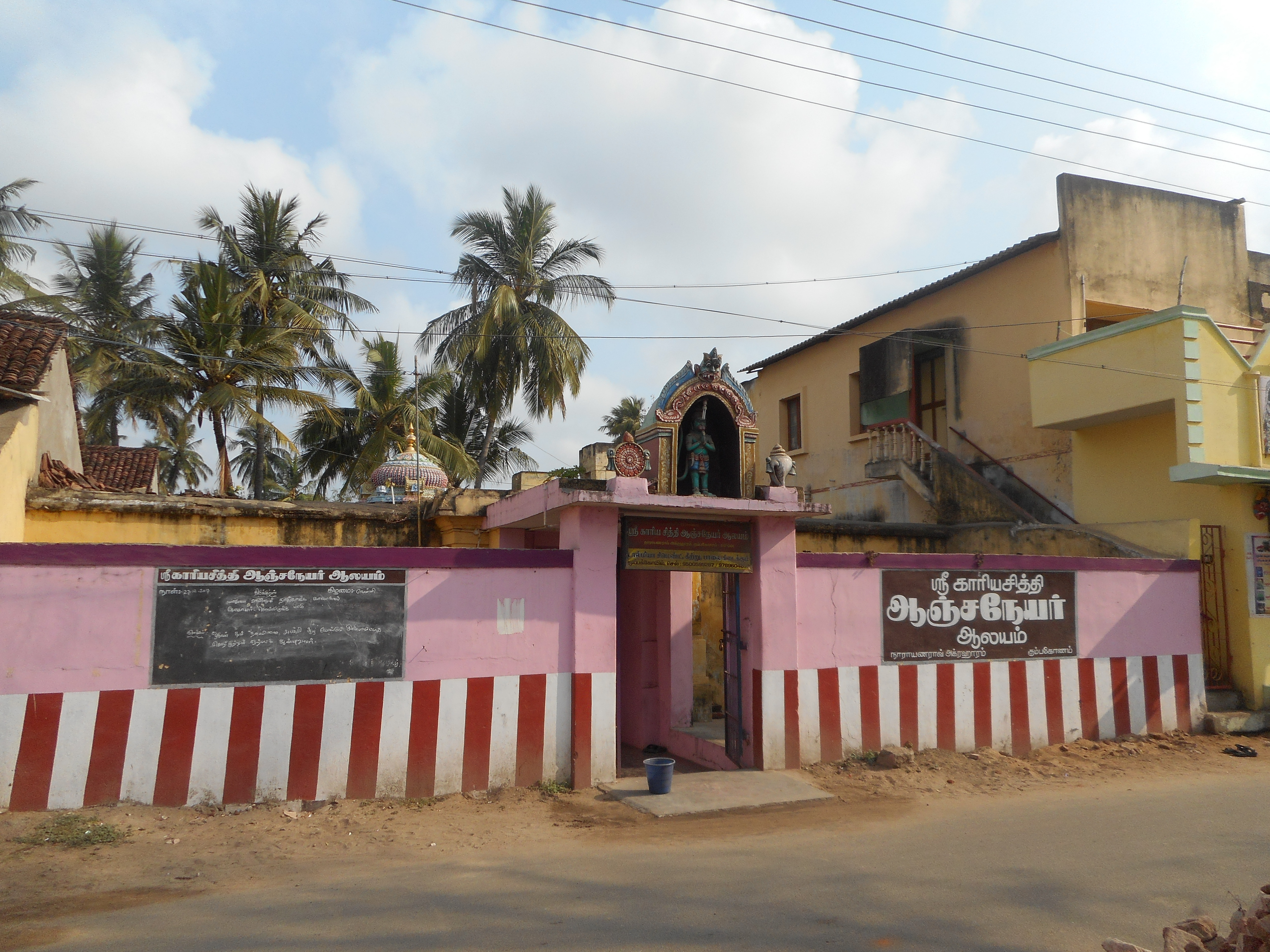 கும்பகோணம் காரியசித்தி ஆஞ்சநேயர்கோயில்